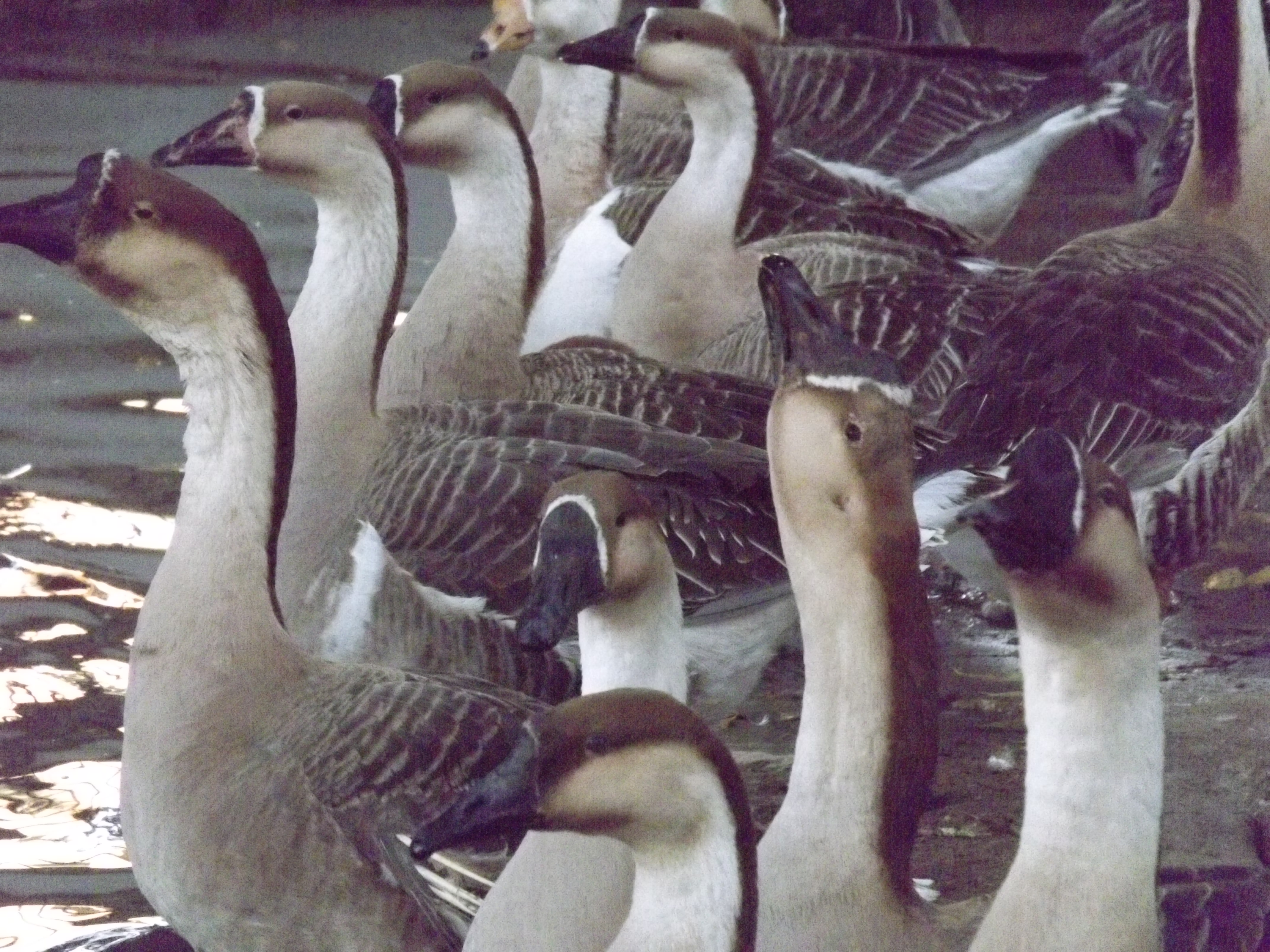 Swan Goose